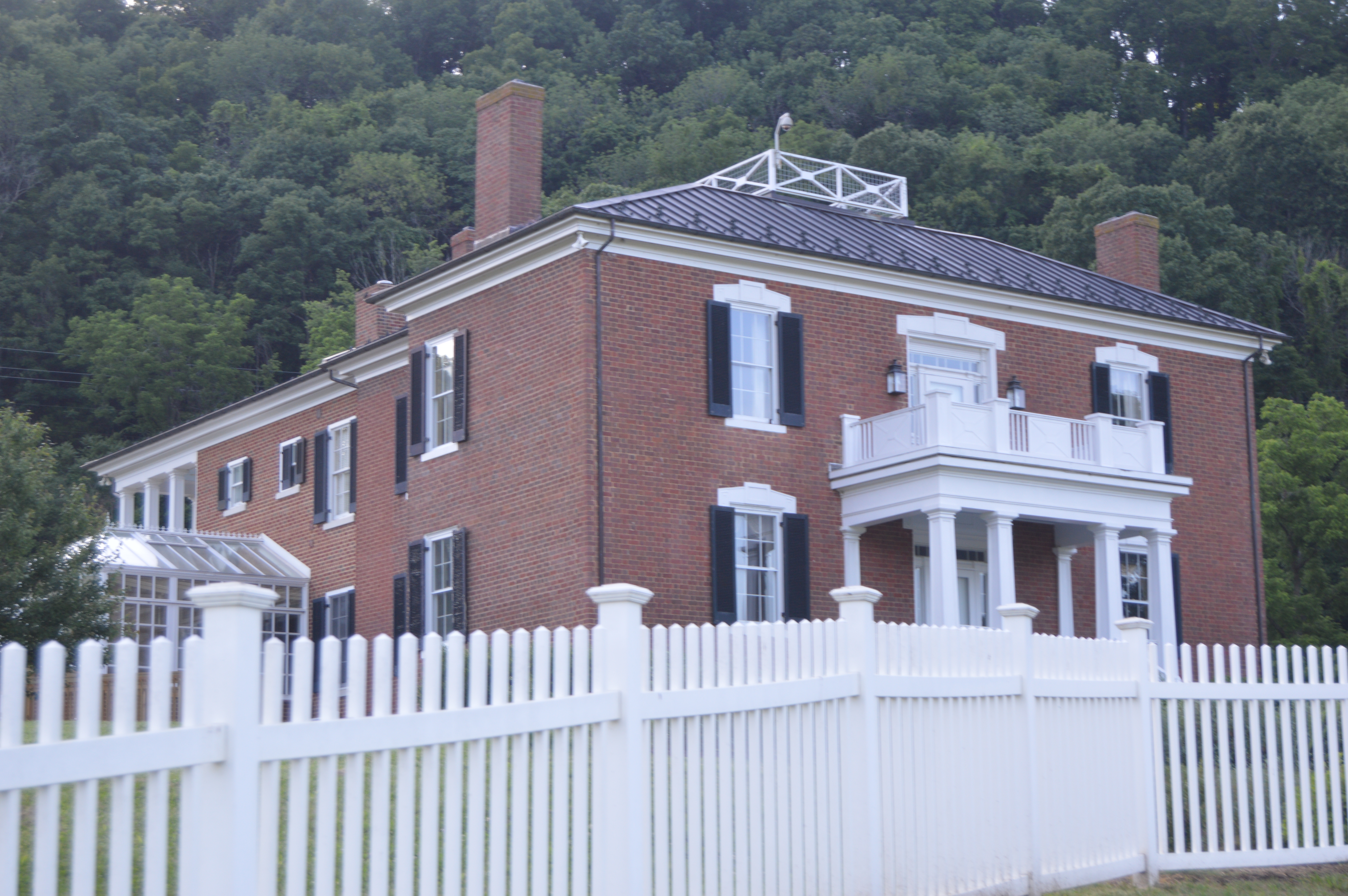 Southern side and front of Annandale, located on Gilmers Mill Road southwest of Natural Bridge in Botetourt County, Virginia, United States. Built in 1835, it is listed on the National Register of Historic Places.